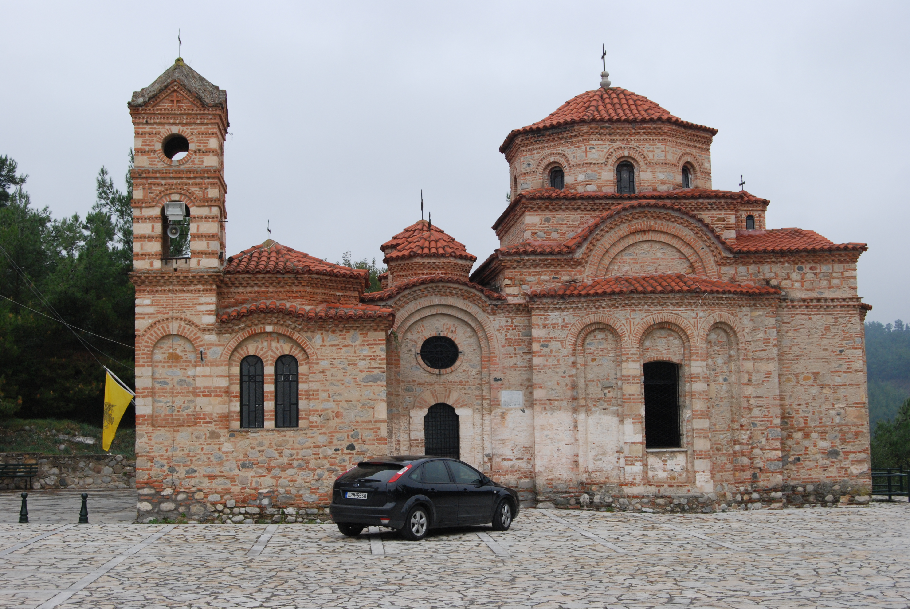 Saint Nicholas Church, Serres